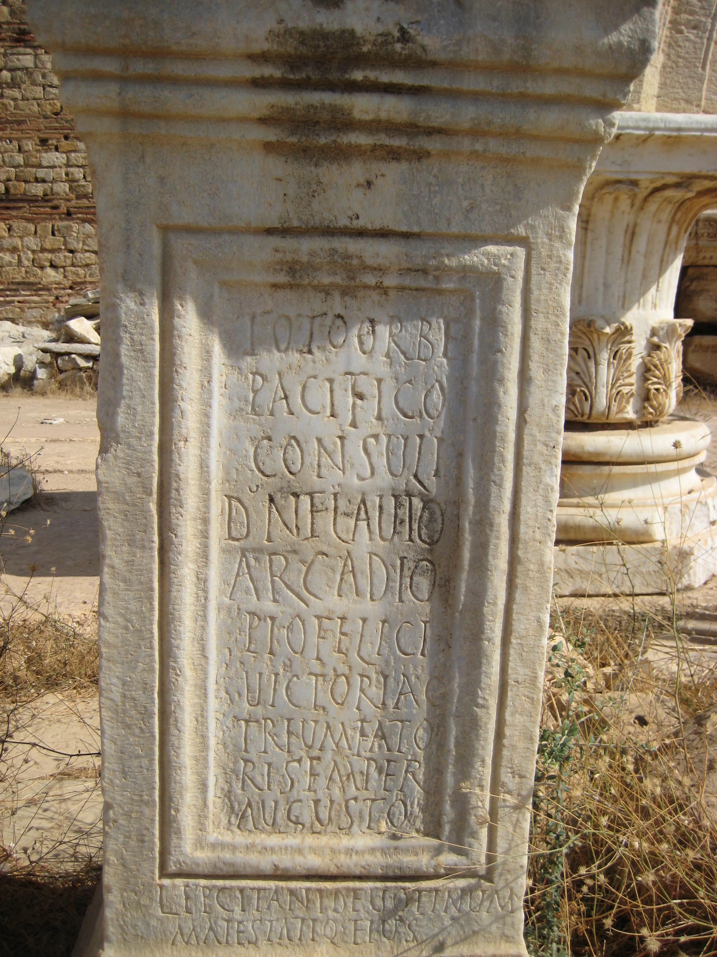 Inscription, forum in Leptis Magna, 5nd A.D. (Libya)